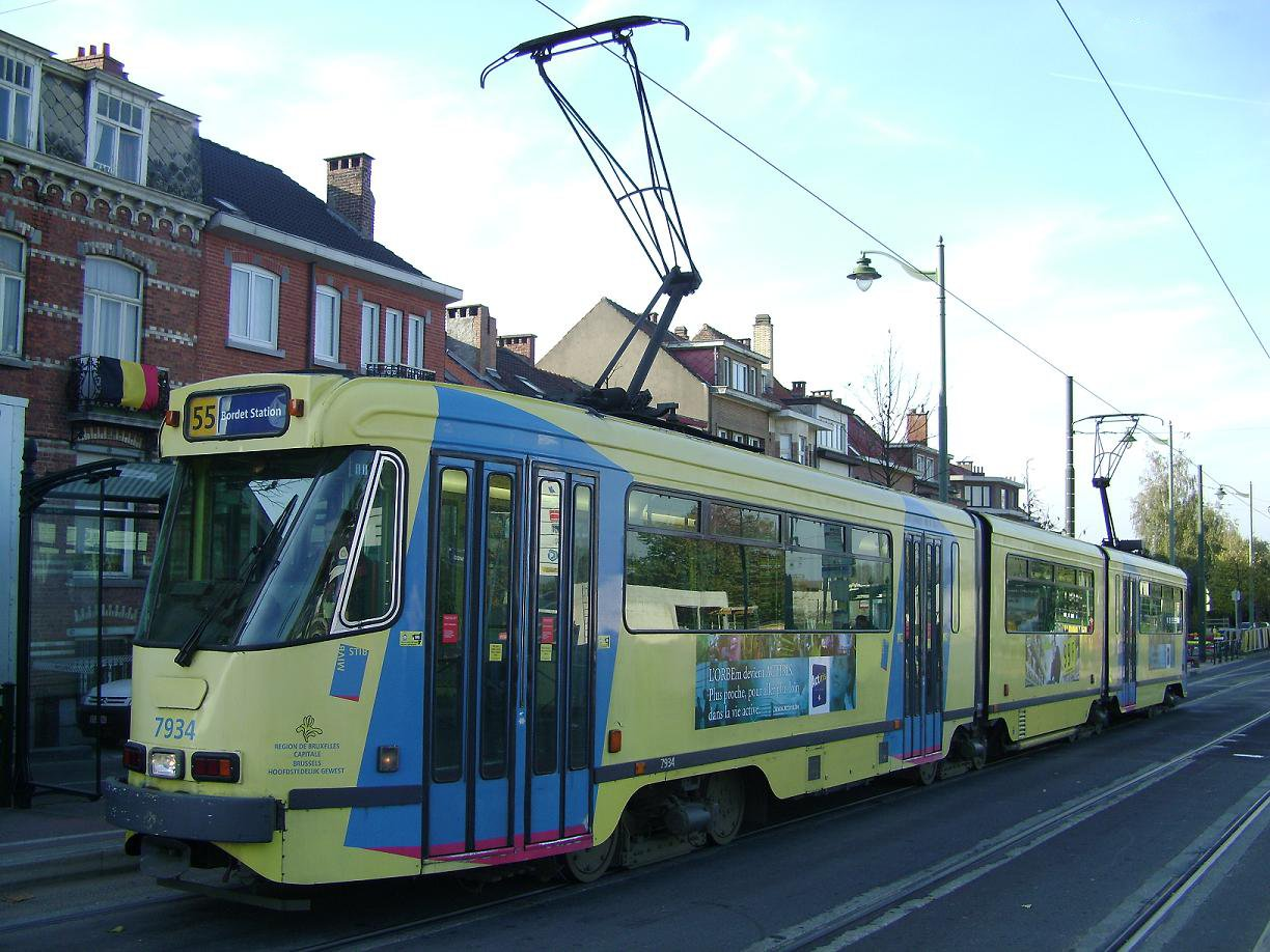 triple articulated Brussels city tram, line 55, tram stop Bordet Station.